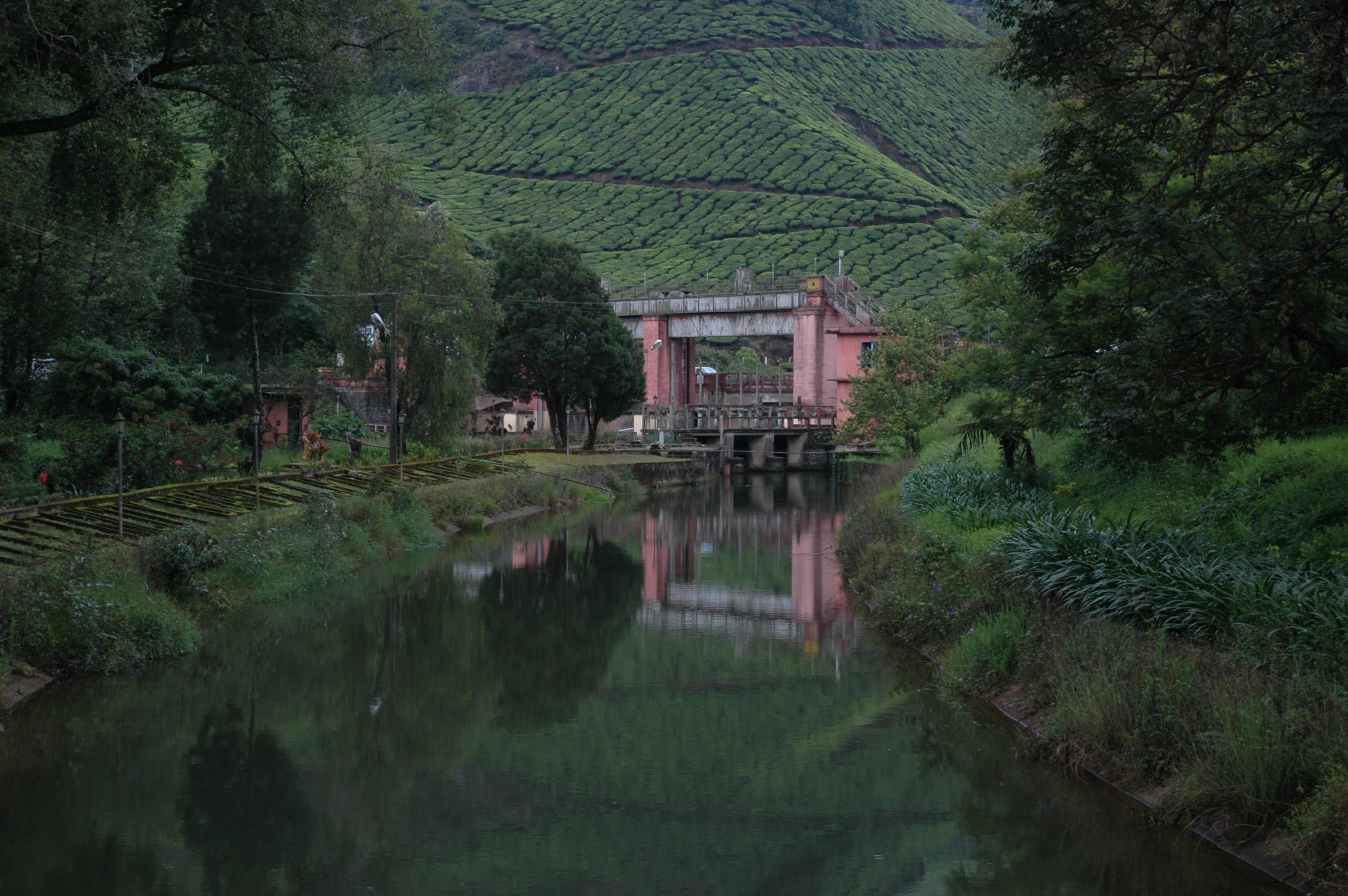 Munnar Photo taken by me with D70s. Credit is appreciated though not mandatory.